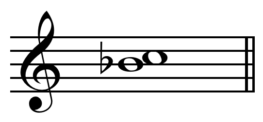 Inverted minor seventh on C.